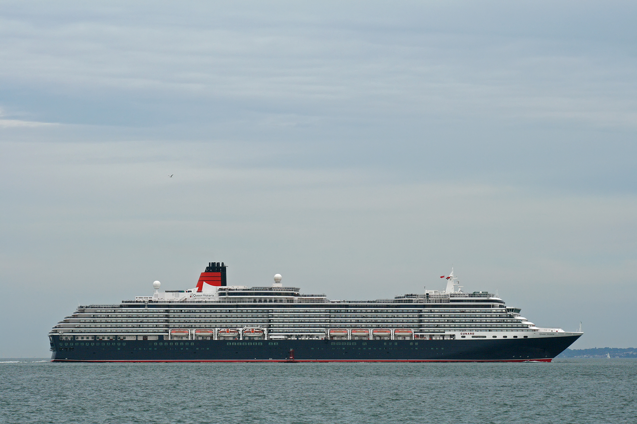 Cunard 90,000 gross tonnes cruise ship passing Calshot Spit light buoy outward bound from Southampton 1st July 2010. Image uploaded by me User:George.Hutchinson from a photograph taken by and supplied by Brian Burnell. The photograph should be attributed to Brian Burnell in this format. Wikipedia editors are reminded that the copyright remains with the photographer, and that the terms of the Creative Commons Attribution-ShareAlike 3.0 Unported Licence that allow editors to reuse this image apply to Wikipedia editors also, as they do to other reusers of this image. Breaches of the licence terms are not only unlawful, but are also antisocial, in that breaches discourage photographers from making their images freely available to everyone without payment. Non-Wikipedia users are requested to advise Brian Burnell of its use other than on Wikipedia.